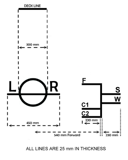 Drawing of a Subdivision Load Line mark with two subdivision load marks